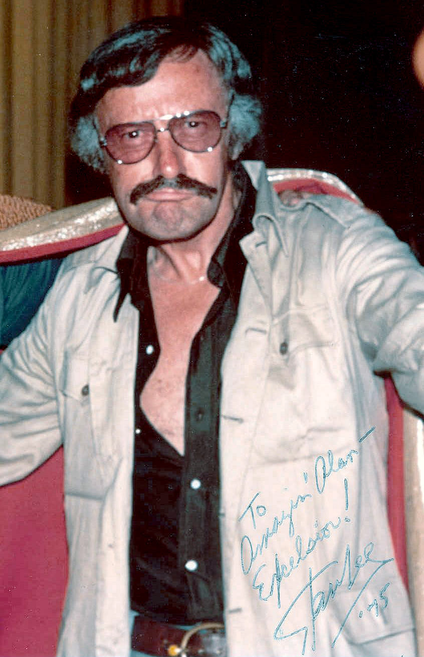 Photo of Stan Lee at the 1975 San Diego comic con, with the text "To amazin' Alan - Excelsior! Stan Lee '75"